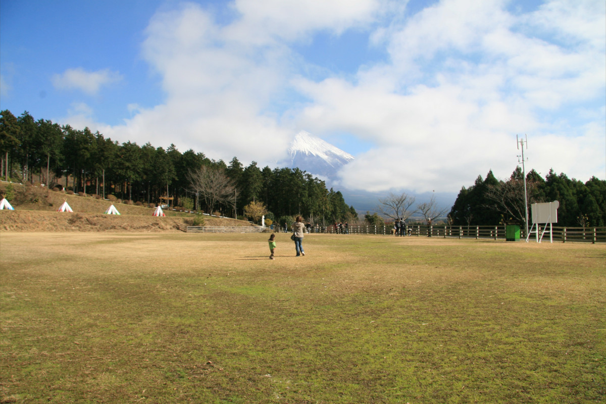 Makaino ranch Shizuoka Japan